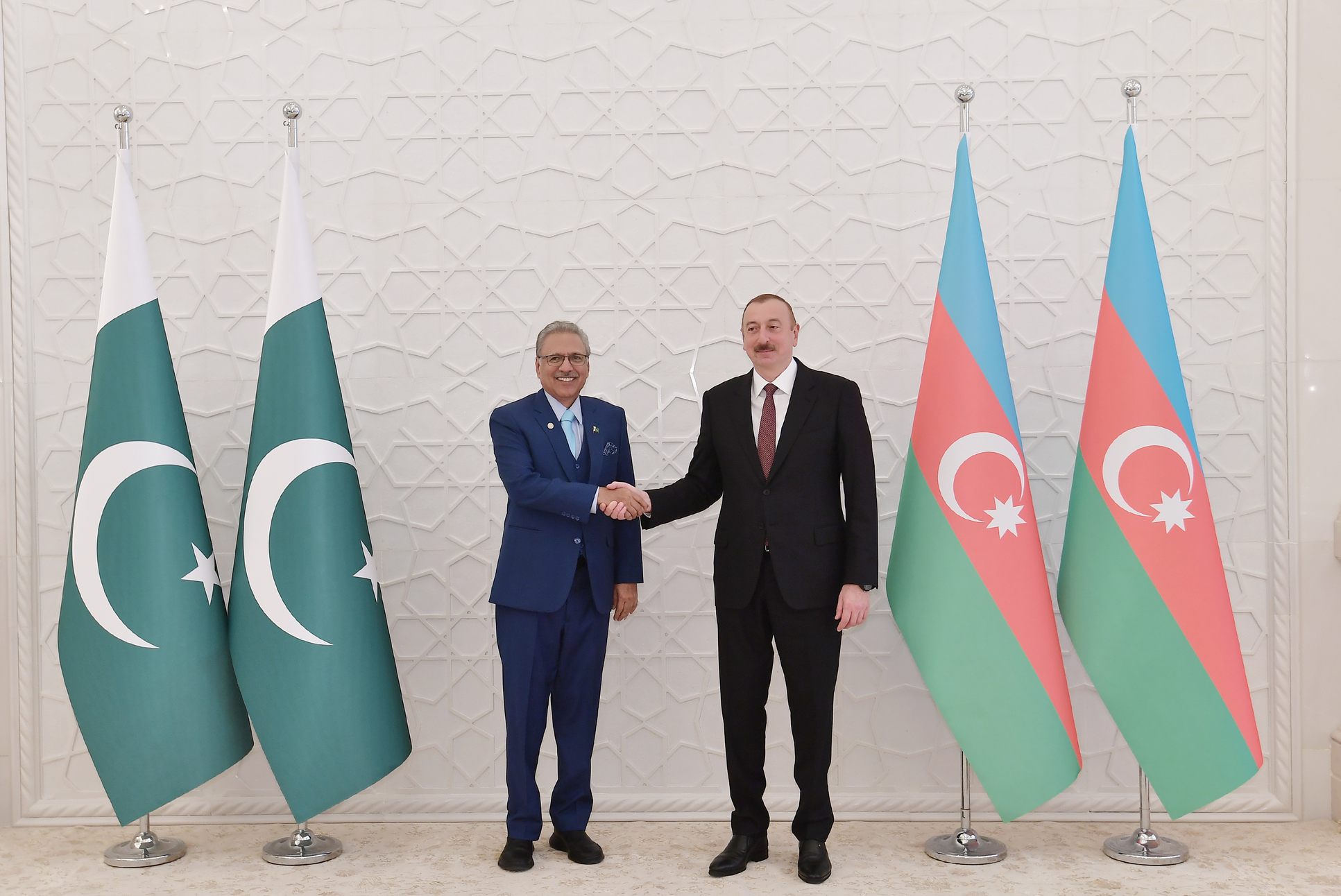 Ilham Aliyev met with President of Paкistan Arif Alvi